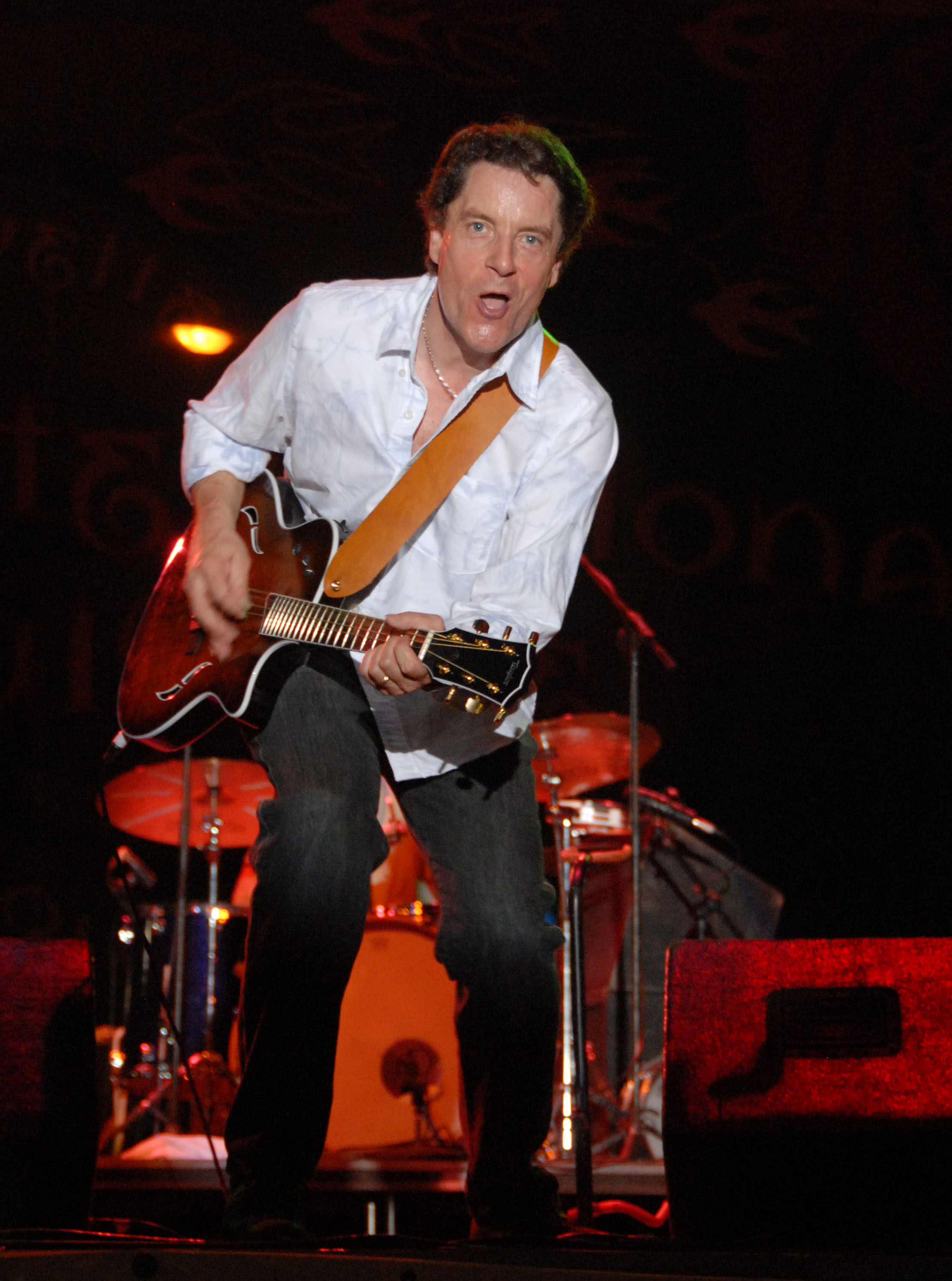 French singer Francis Cabrel performs at Festival International de Louisiane in Lafayette, LA, April 28, 2007